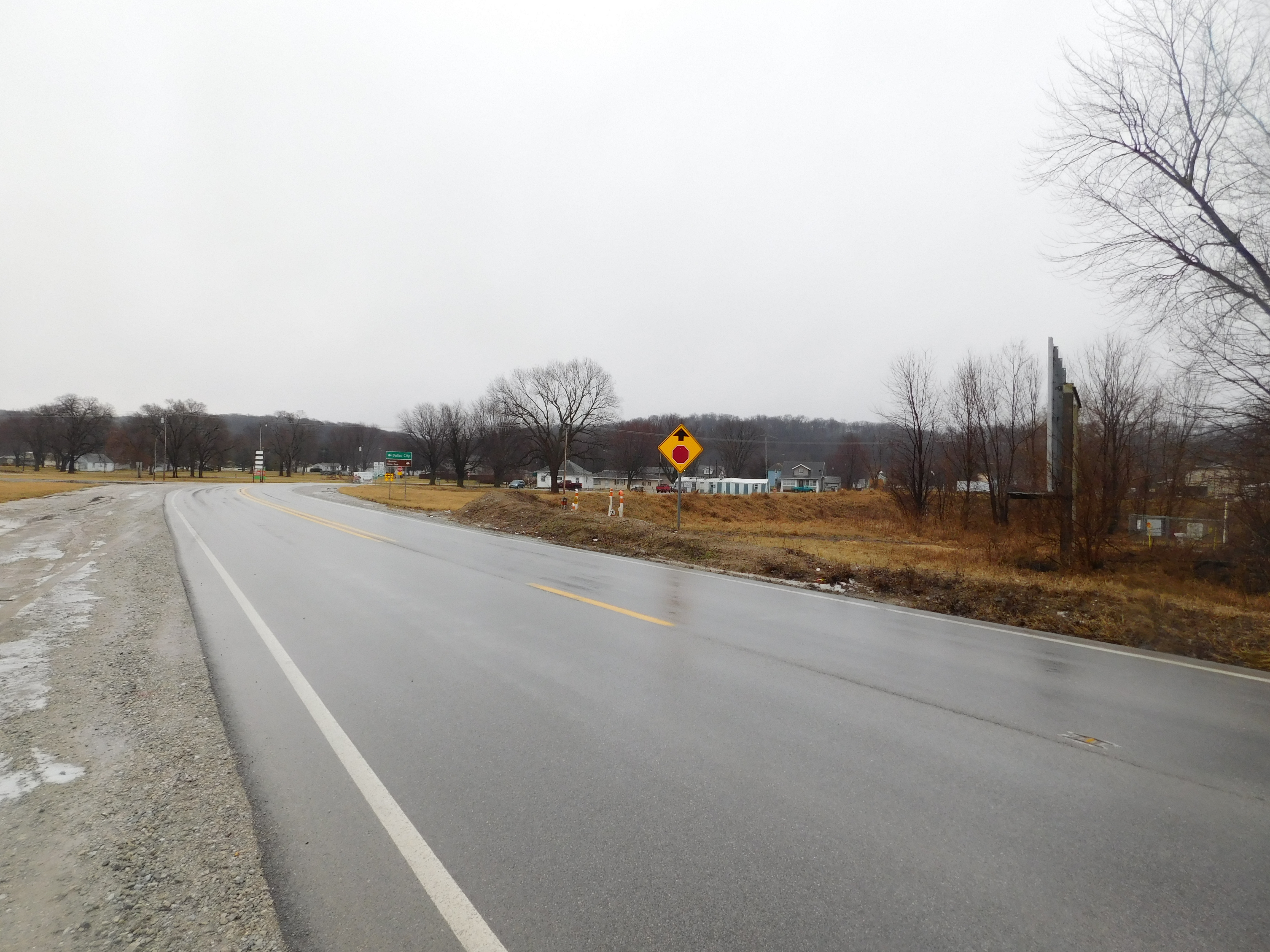 Illinois Route 9 in Niota, Illinois coming off the Fort Madison Toll Bridge.